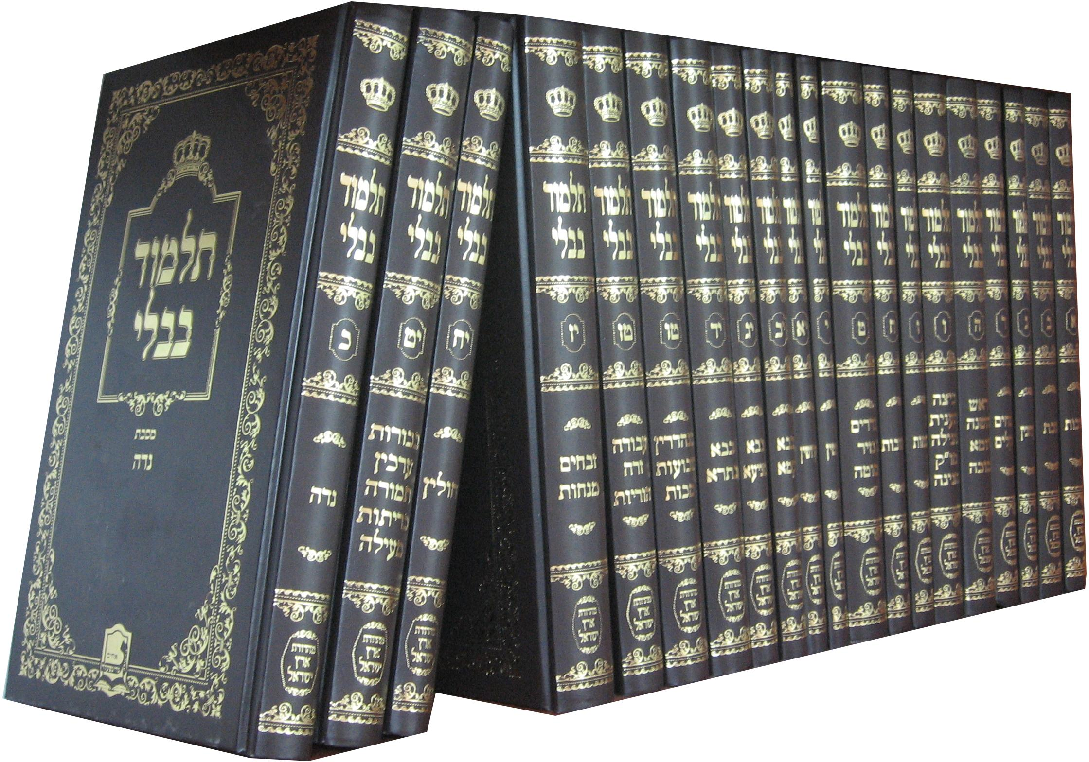 A complete set of the Babylonian Talmud